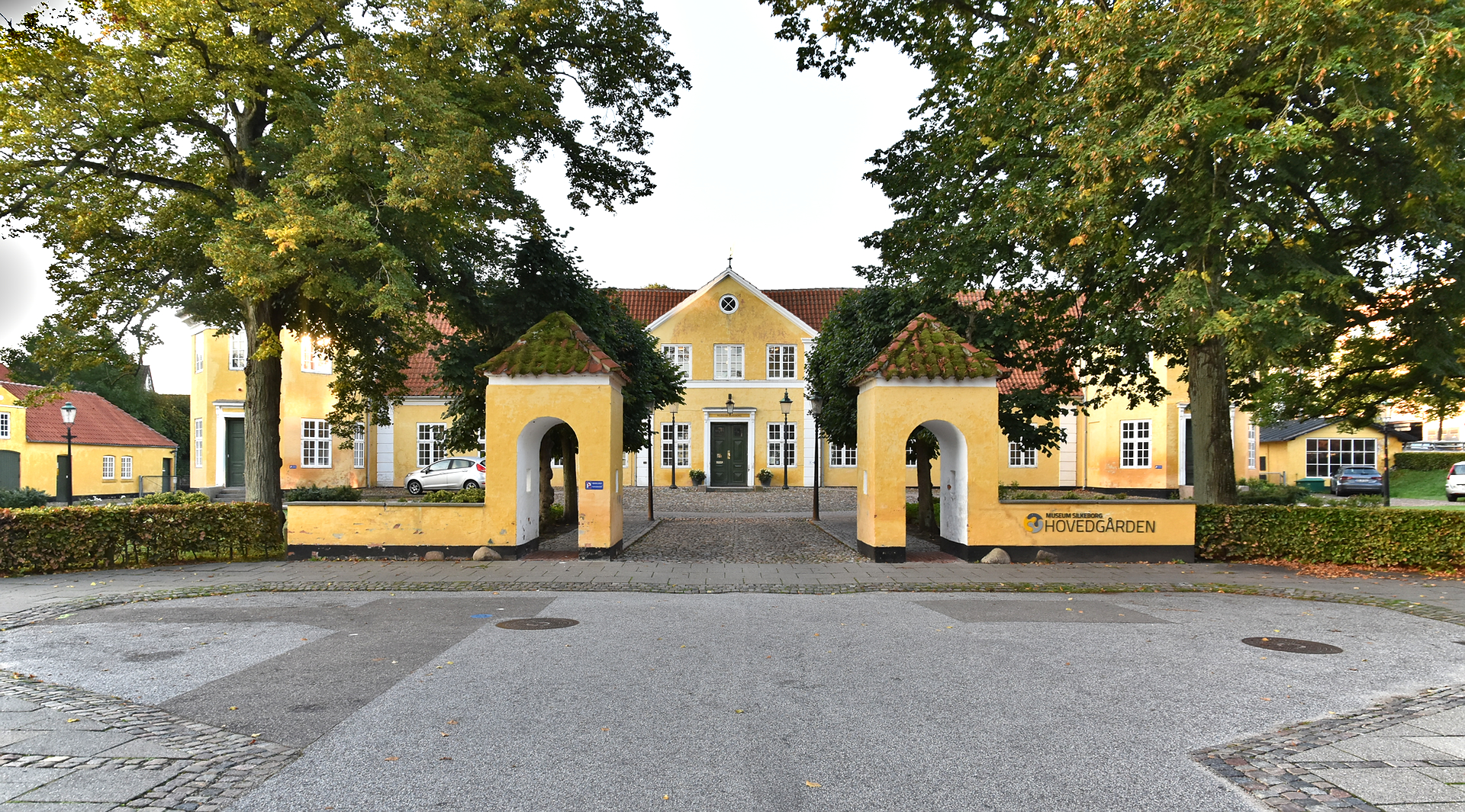 Silkeborg Manor (from ca. 1767), Denmark, now residence of Museum Silkeborg.